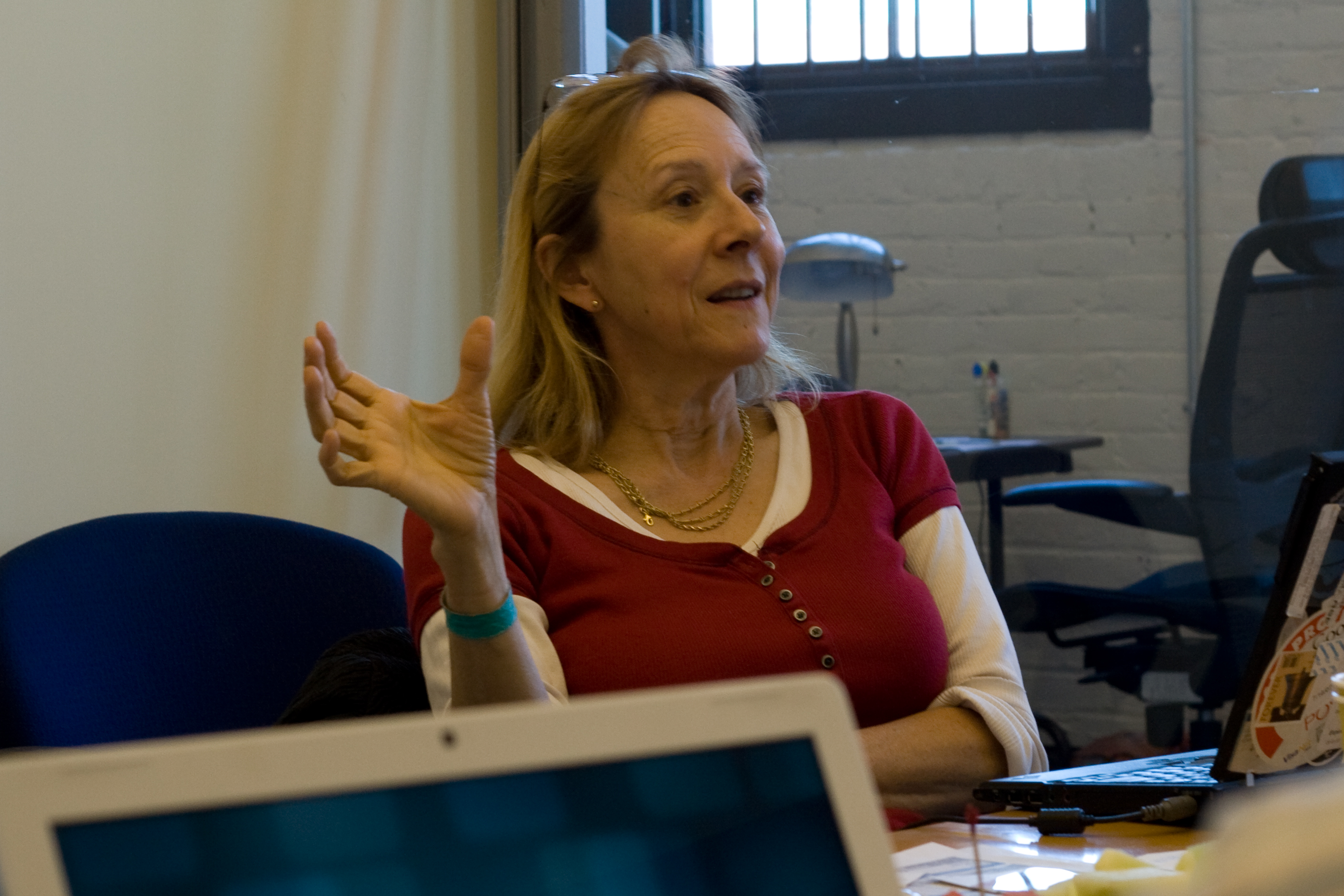 Esther's been a member of our board for some time, but this is the first time I've been down while she was in the office. It was great to finally meet her. Esther has been a huge driver of a number of internet companies and technologies and has invested in a number of early internet startups including Flickr, , Technorati, Orbitz and of course, Boxbe. She wrote Release 1.0, an influential technology newsletter that has since been sold to O'Reilly.